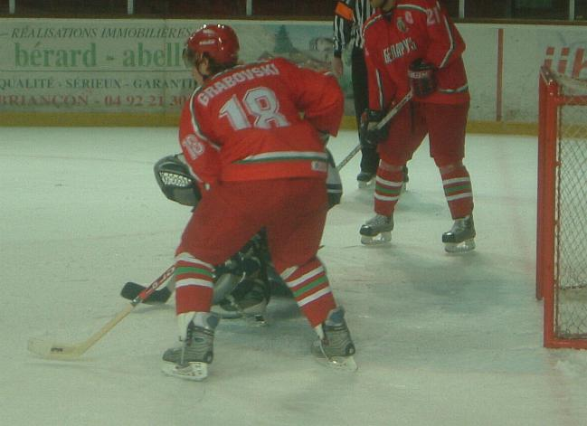 Mikhaïl Grabovski, belarus ice hockey player